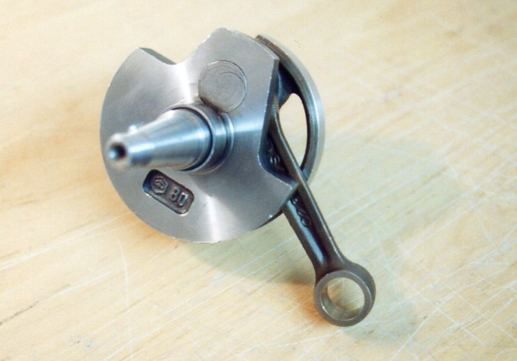 Crankshaft two stroke Engine Vespa P80E